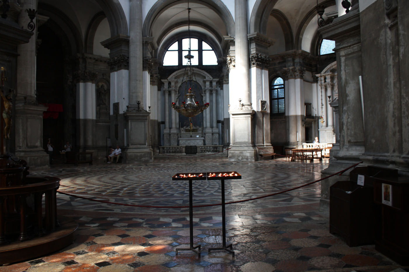 Inside of the Church of Santa Maria della Salute - Venice